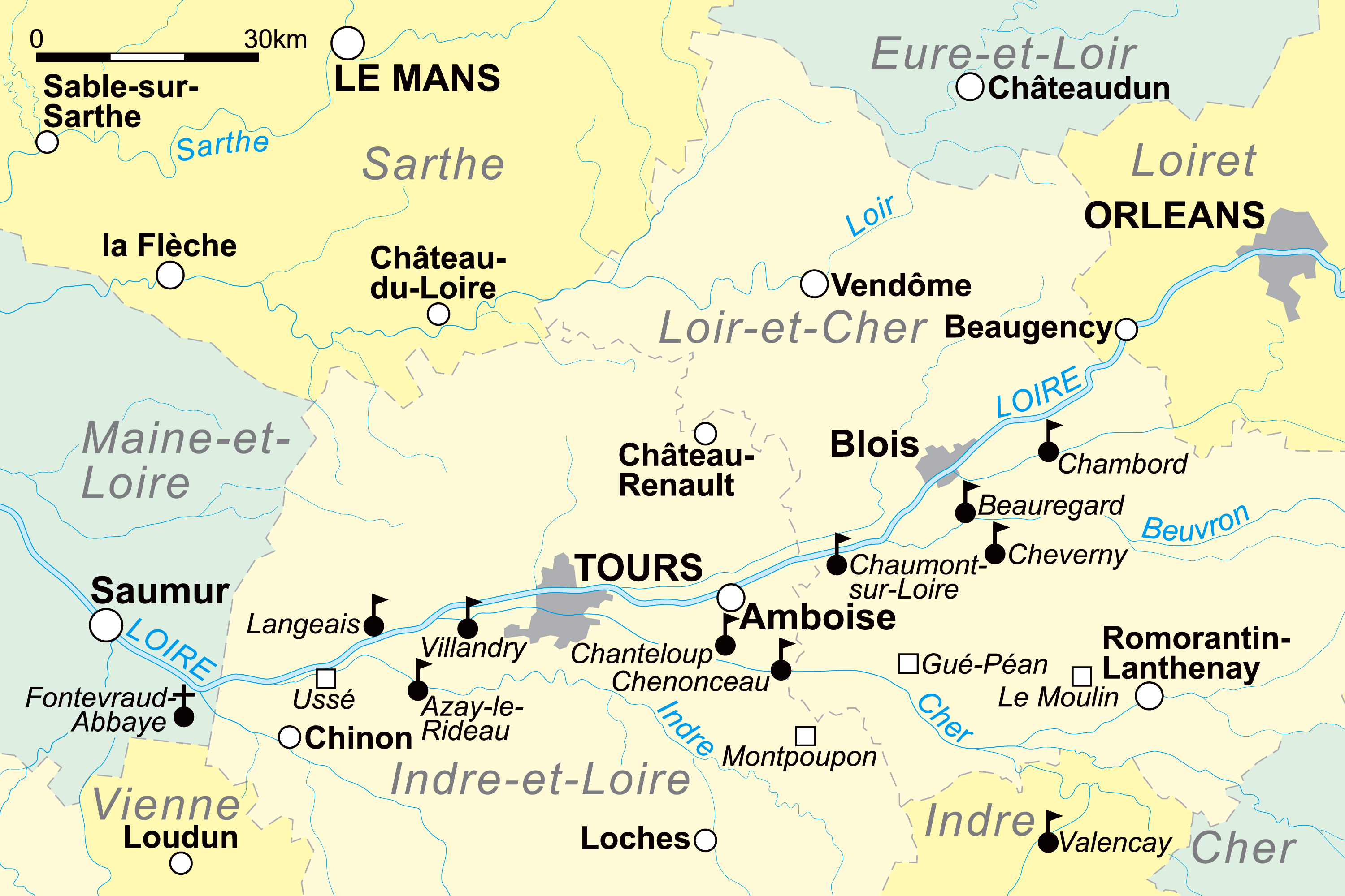 Valley of the river Loire with castles